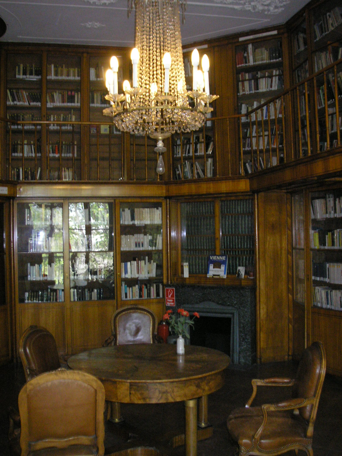 Image of the library at the Palais Clam-Gallas in Vienna, located at Währinger Straße.